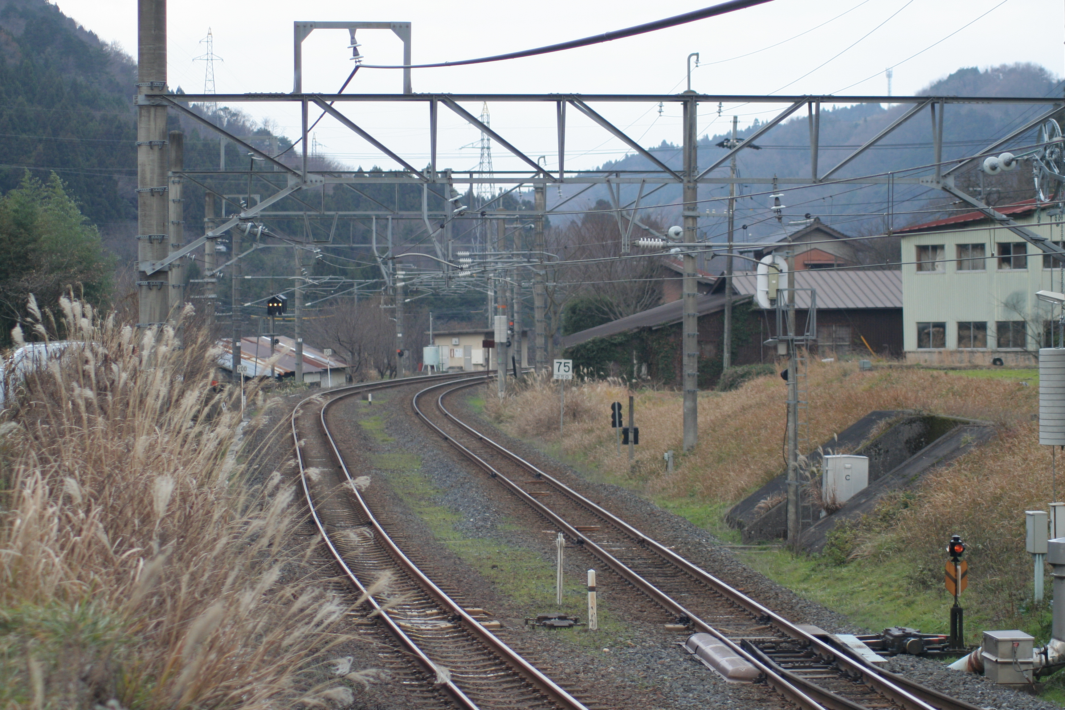 West Japan Railway Hakubi Line Kamimizoguchi Signal station